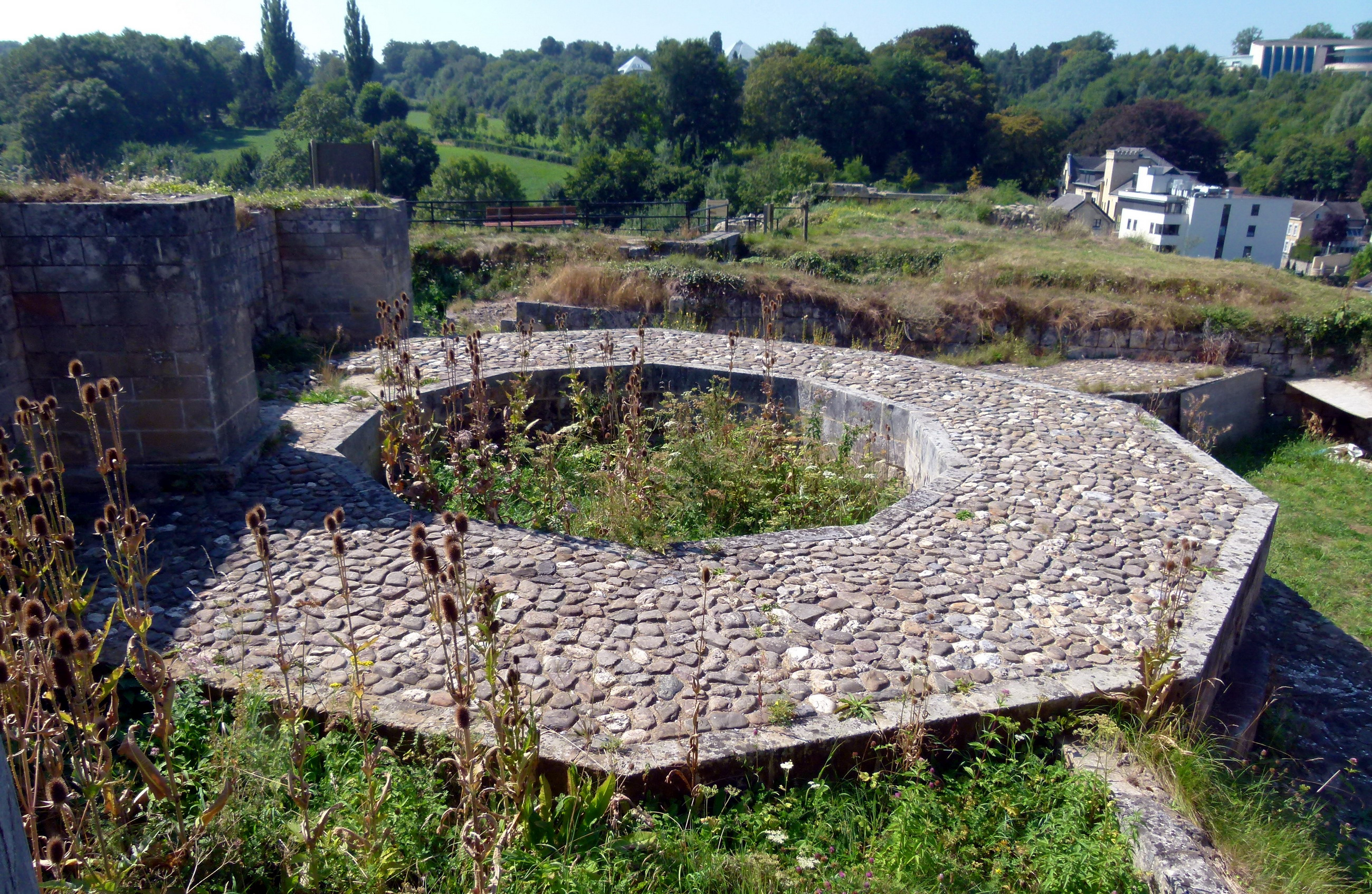 Valkenburg, Limburg, the Netherlands. View of remainder of a tower of Valkenburg Castle, destroyed in 1672.